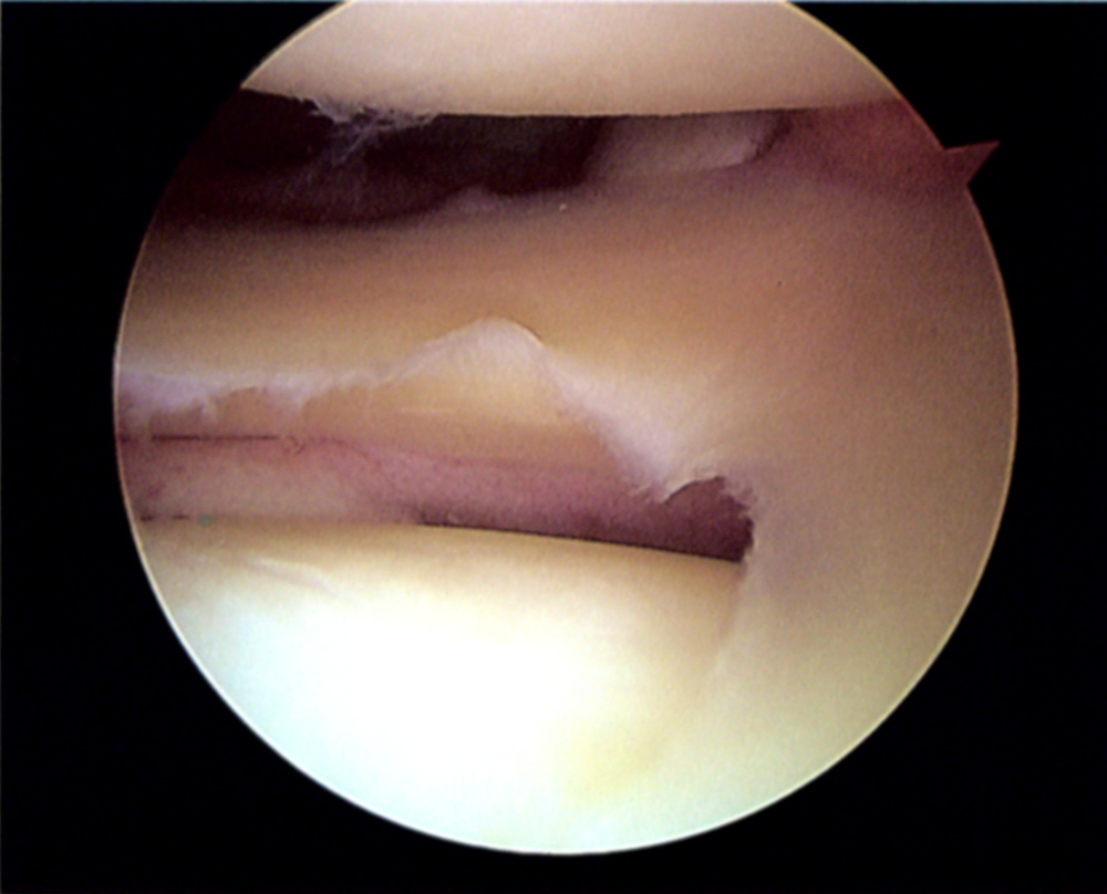 Close-up of a tear in a medial meniscus. The tear begins in the center left of the image, extends to the center of the image, and continues to the lower middle of the image. The feather-like structures are fragments of cartilage.